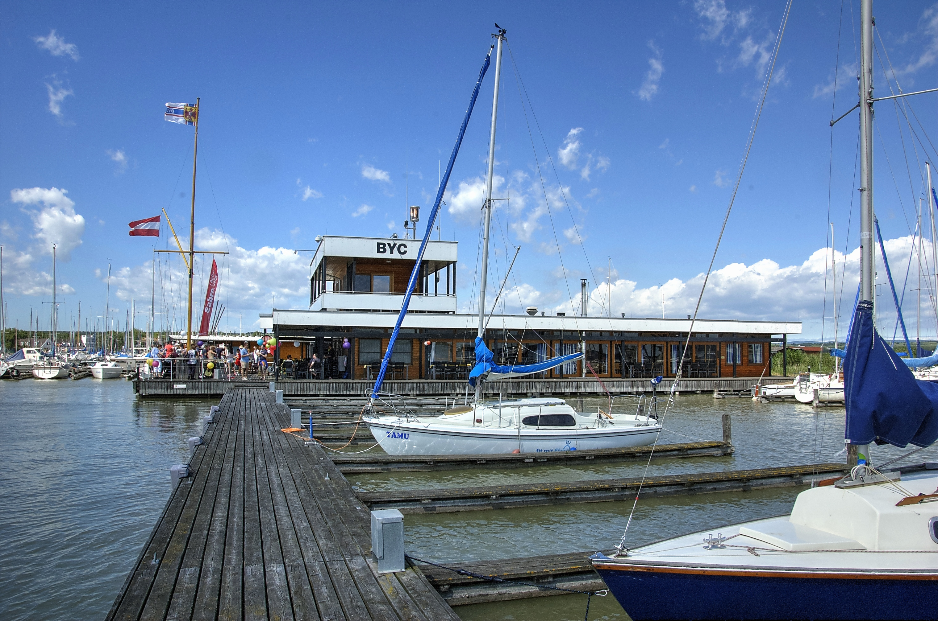 Yachting at Rust am See (Neusiedlersee)